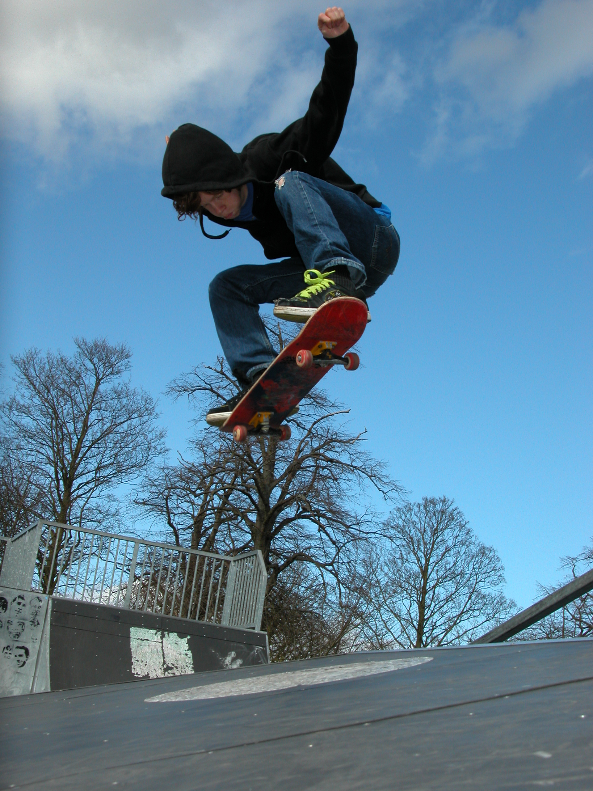 Tommy shifty, taken on mattys camera